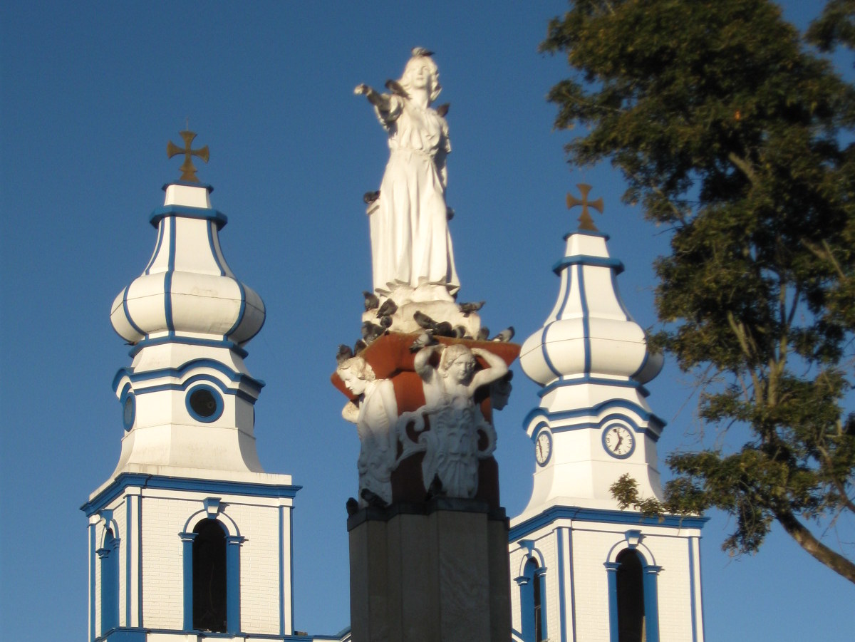 Templo San Felipe Ipiales, Colombia